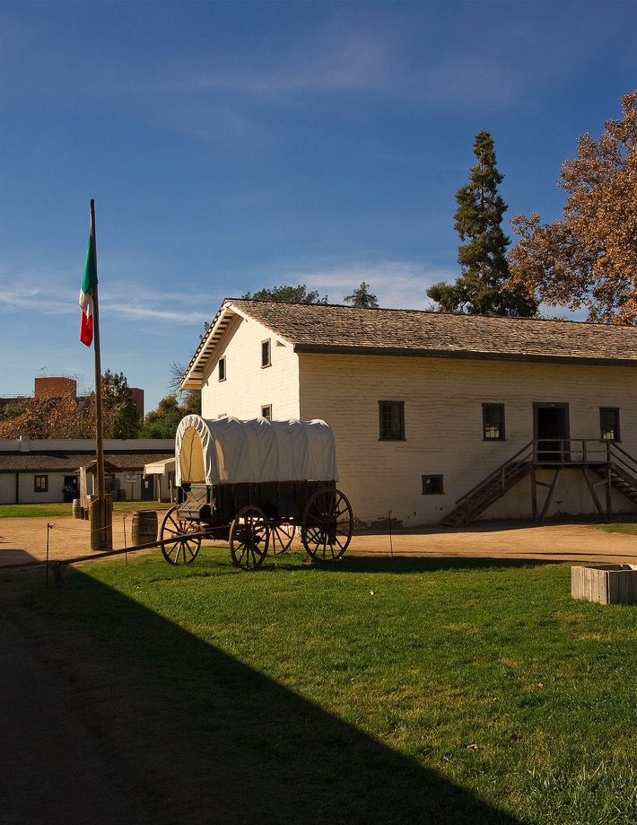 Sutter's Fort in 2009